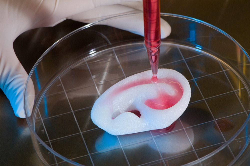 Flickr description PTRP, Richard Dean Research building, Dr. Atala, Regenerative medicine, bioreactor, tissue, blood vessel, muscle tissue( Masood Machingal), electrospinning, electron microscopy (Dr. Ben Harrison), Jin San Choi (ear & digits), PR & Marketing.